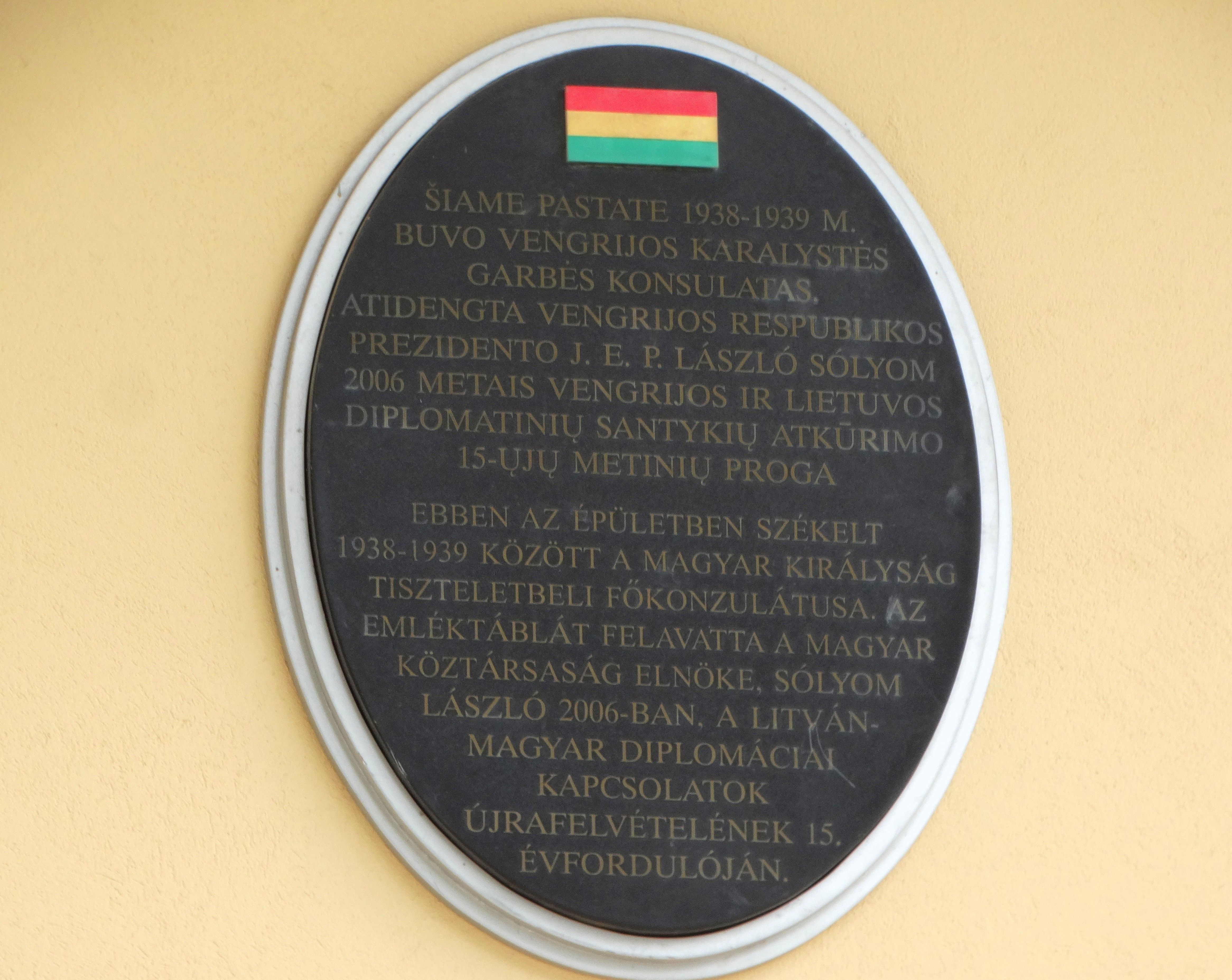 Memorial plaque to the former Honorary Consulate of Hungary, Kaunas, Lithuania